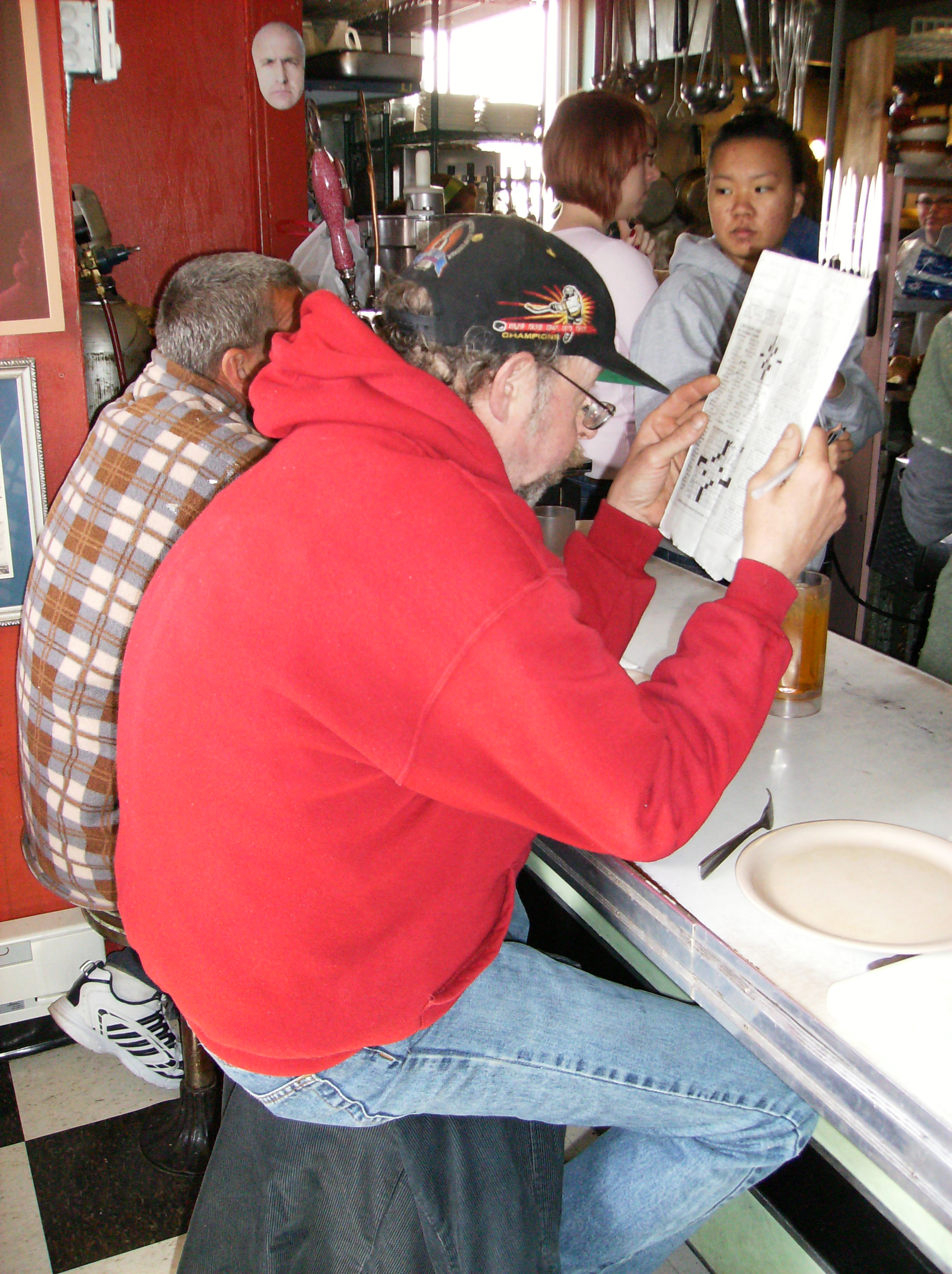 Teig Hogan works crossword at Soup Kitchen in Little Grill Collective, Harrisonburg, Virginia on March 17, 2008.